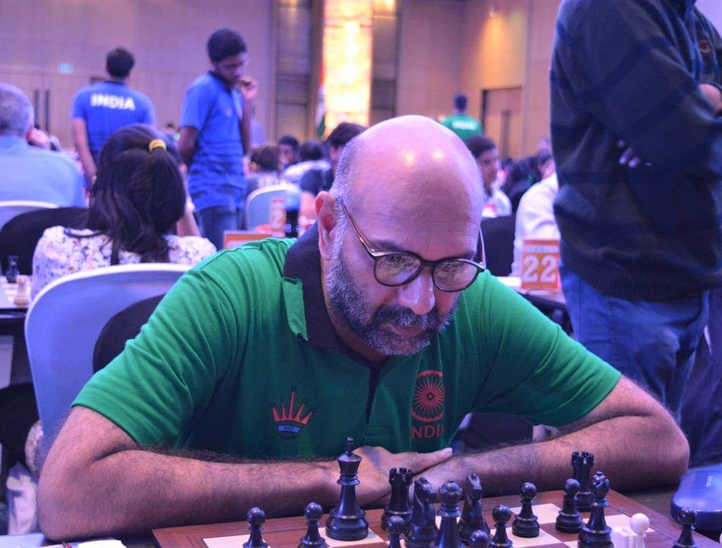 Pravin Thipsay in representing India